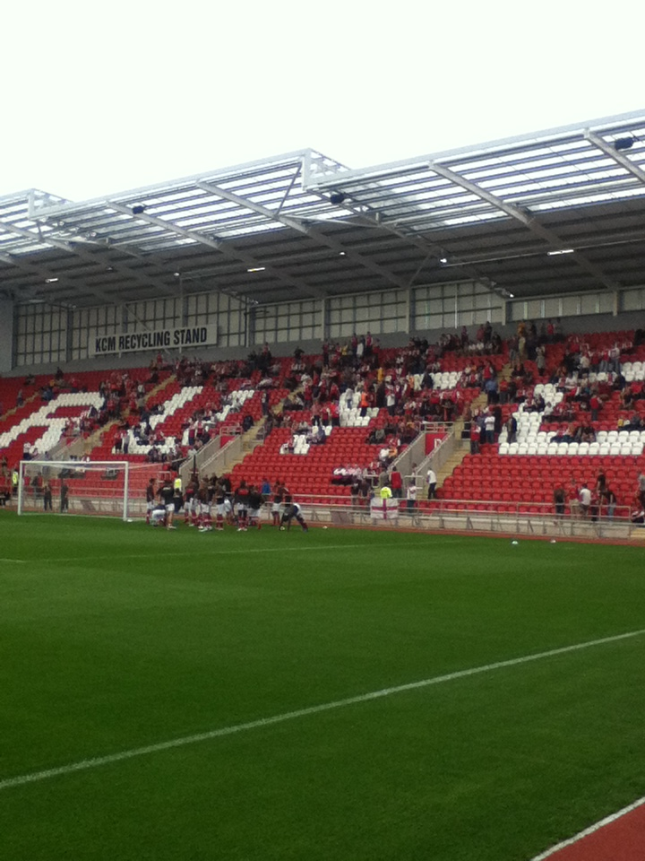 The home kop of RUFC.